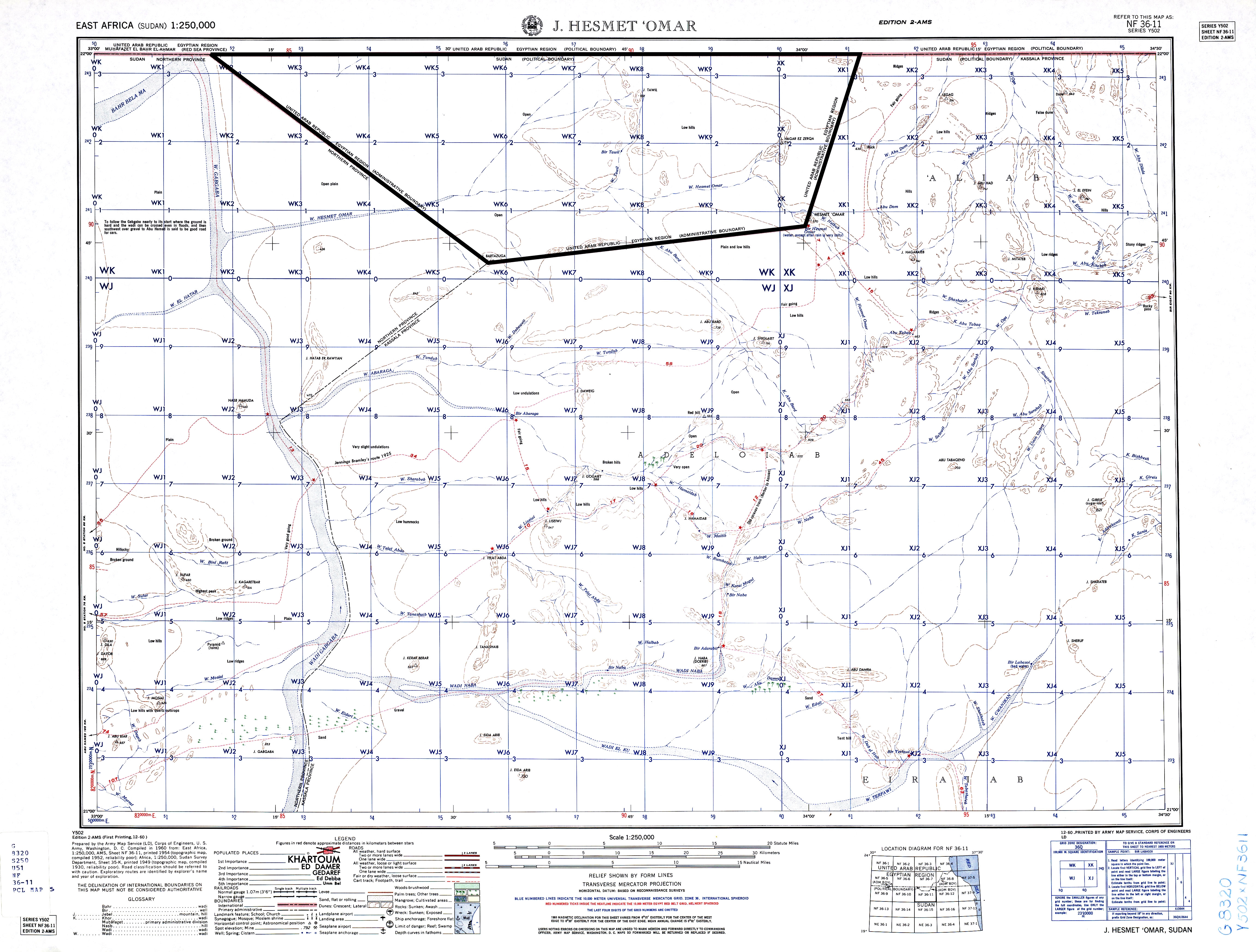 map of Bir Tawil area, Southern Egypt / Northern Sudan (no man's land) and area of northern Sudan to the south of it